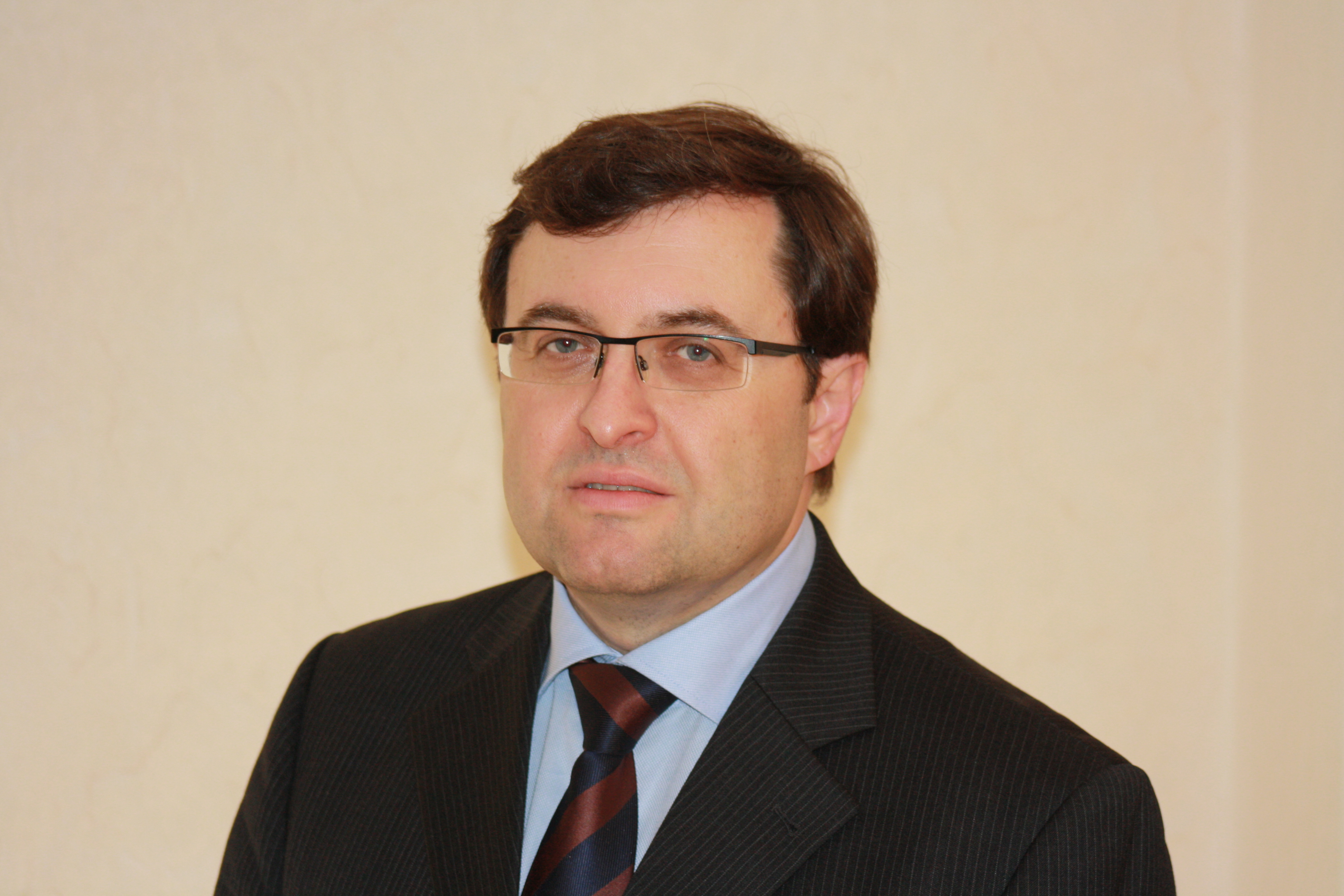 Bernhard W Roth 2019